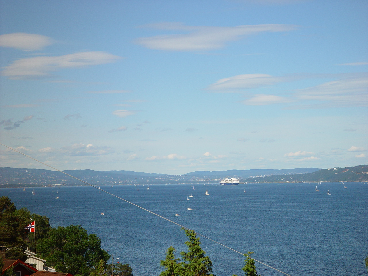 Inner Oslofjord at Nærsnes